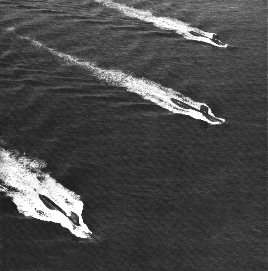 The U.S. Navy nuclear-powered submarines USS Seadragon (SSN-584), USS Sargo (SSN-583). and USS Swordfish (SSN-579), from top to bottom, running on the surface during an anti-submarine exercise in the Pacific Ocean, circa 1961.